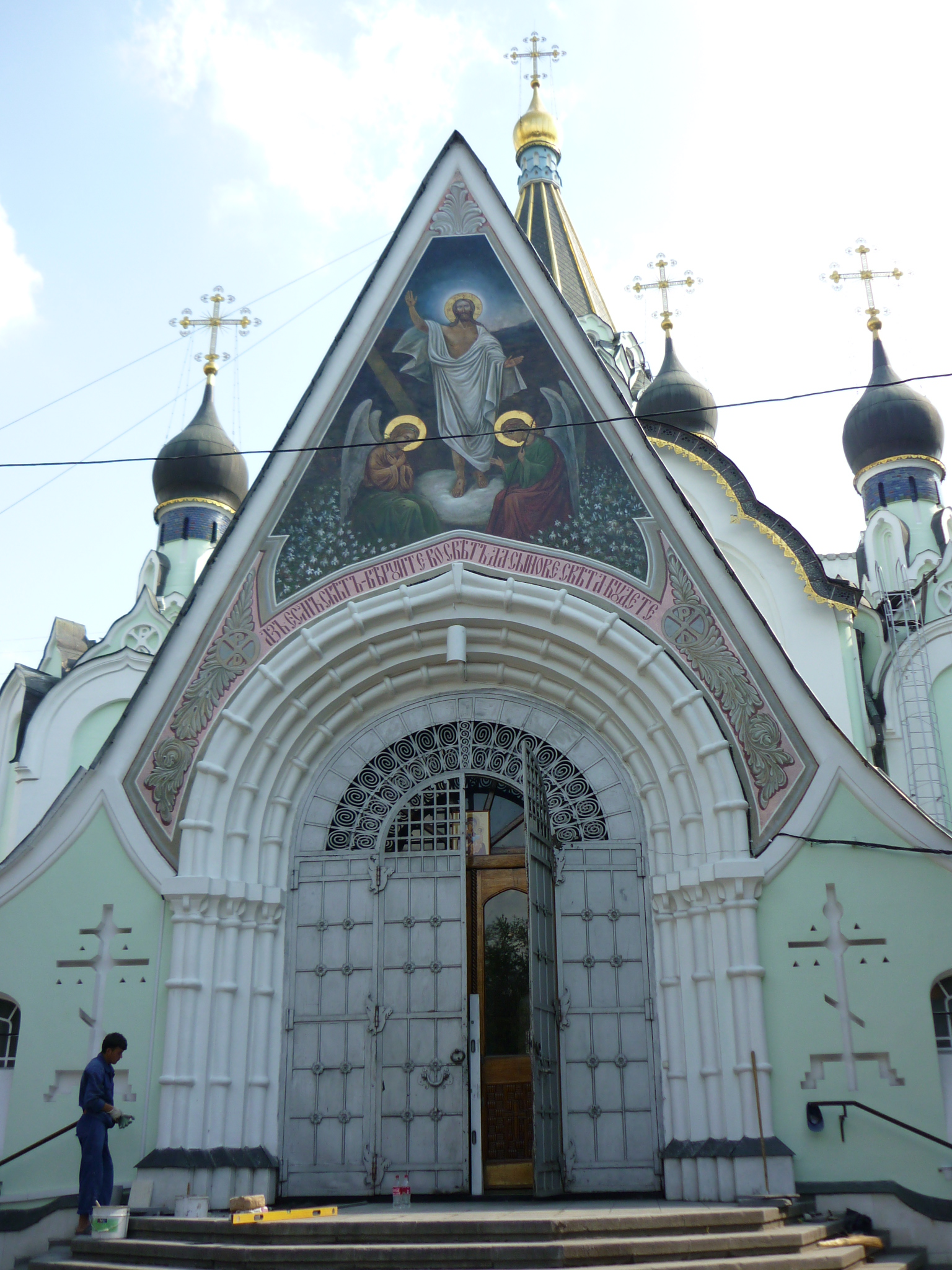 Church of the Resurrection of Christ in Sokolniki